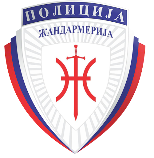 Gendarmerie (Republika Srpska) emblem